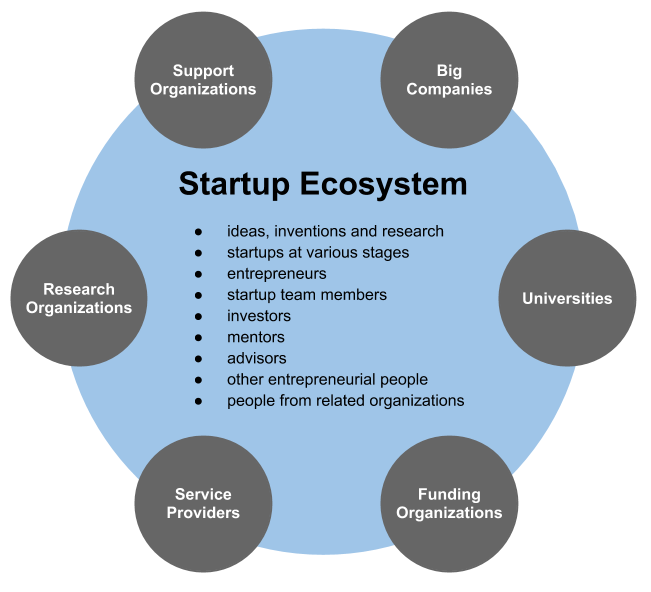 Components that are part of startup ecosystem